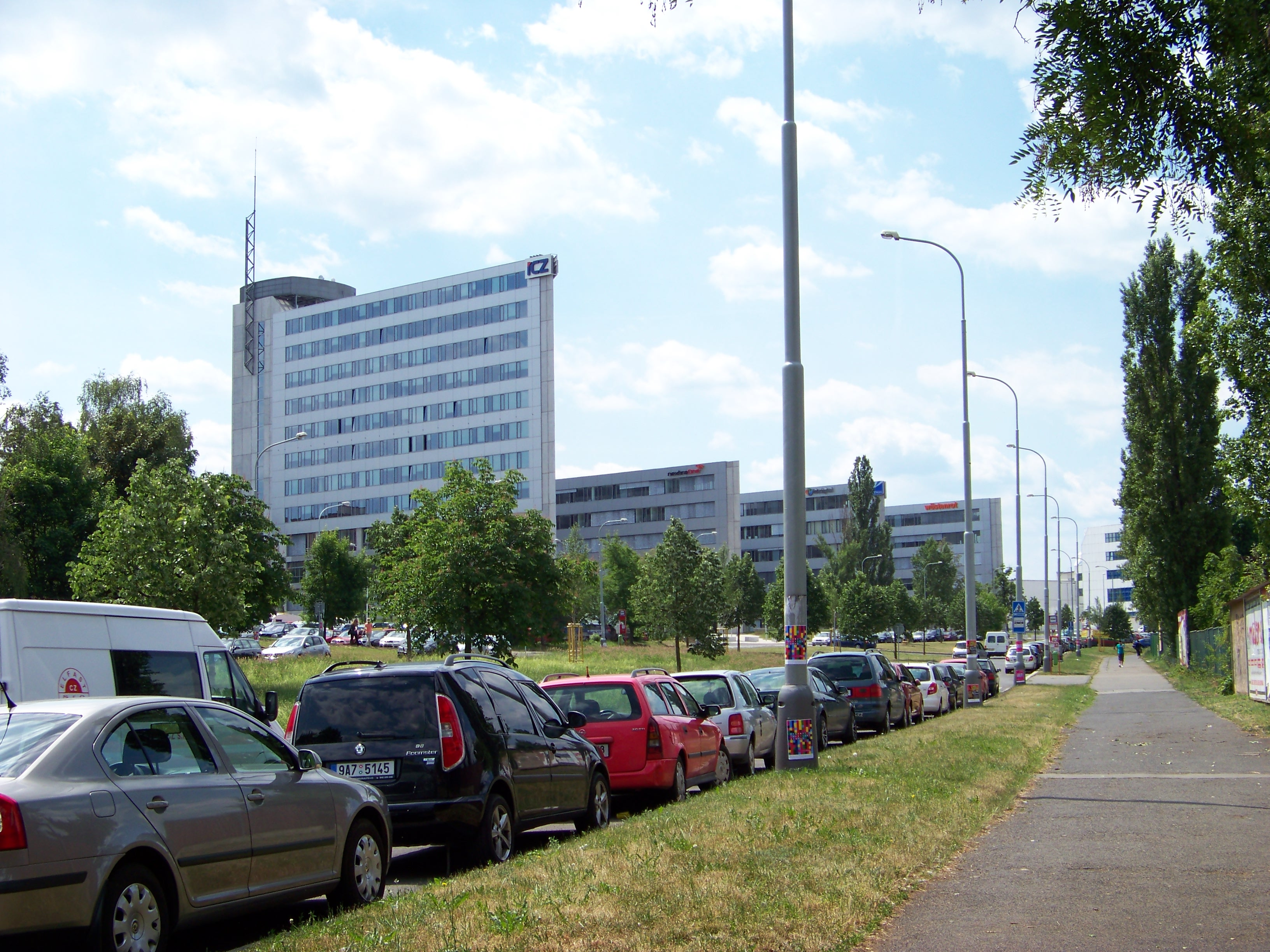 Prague-Nusle-Pankrác, the Czech Republic. Na hřebenech II, Kavčí Hory Office Park.